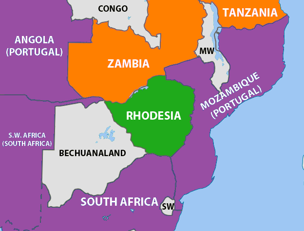 Rhodesian geopolitical situation in 1965 Rhodesia Government allies Nationalist allies